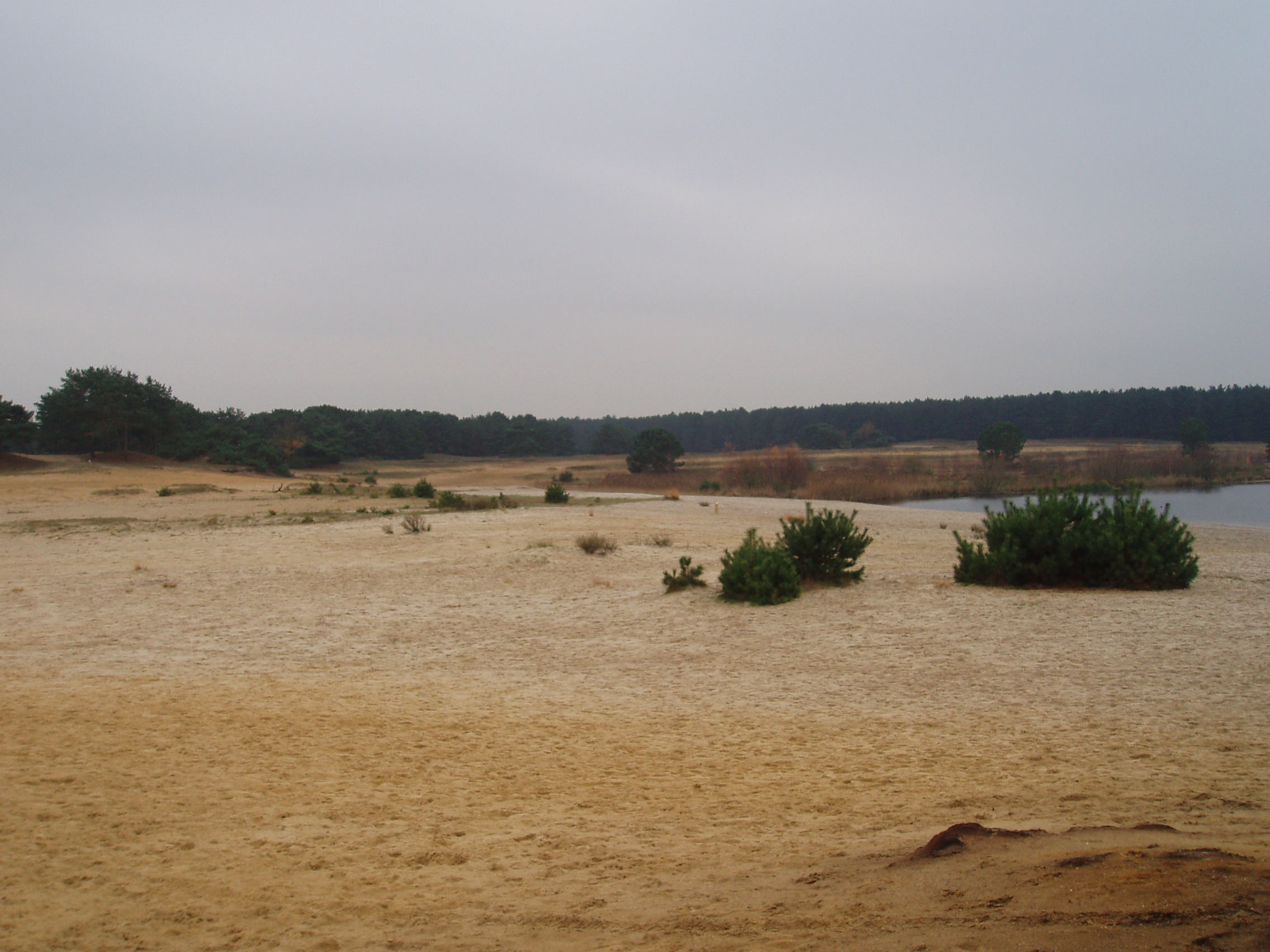 Sahara Lommel